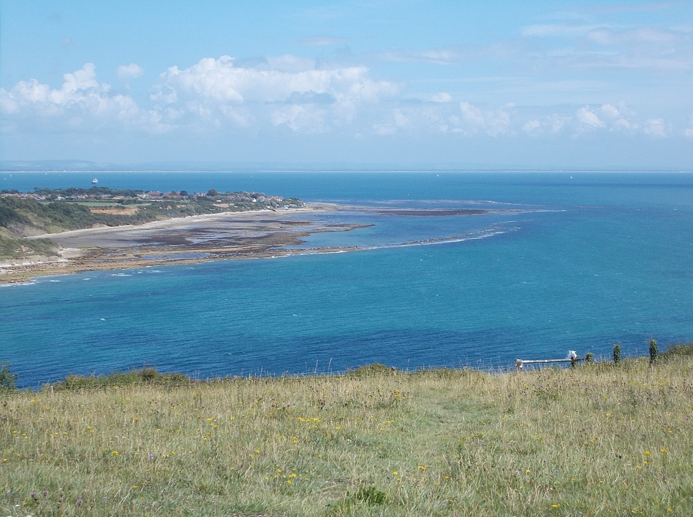 Foreland and Bembridge ledge, Bembridge, Isle of Wight, UK; view from Culver Down, looking north-east with the mainland visible in the far distance